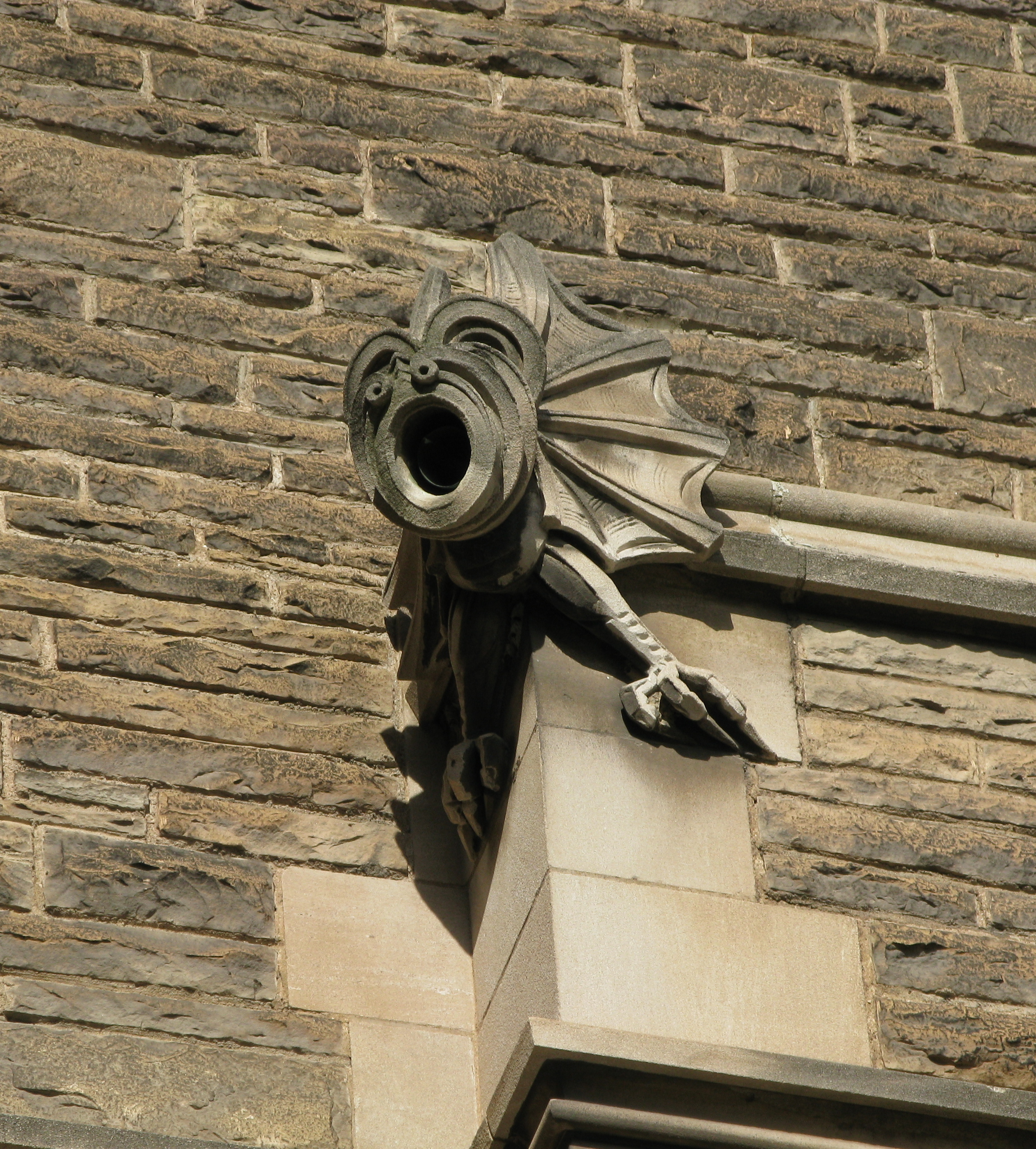 West-facing gargoyle on Hamilton Hall, McMaster University, Hamilton, Ontario, Canada